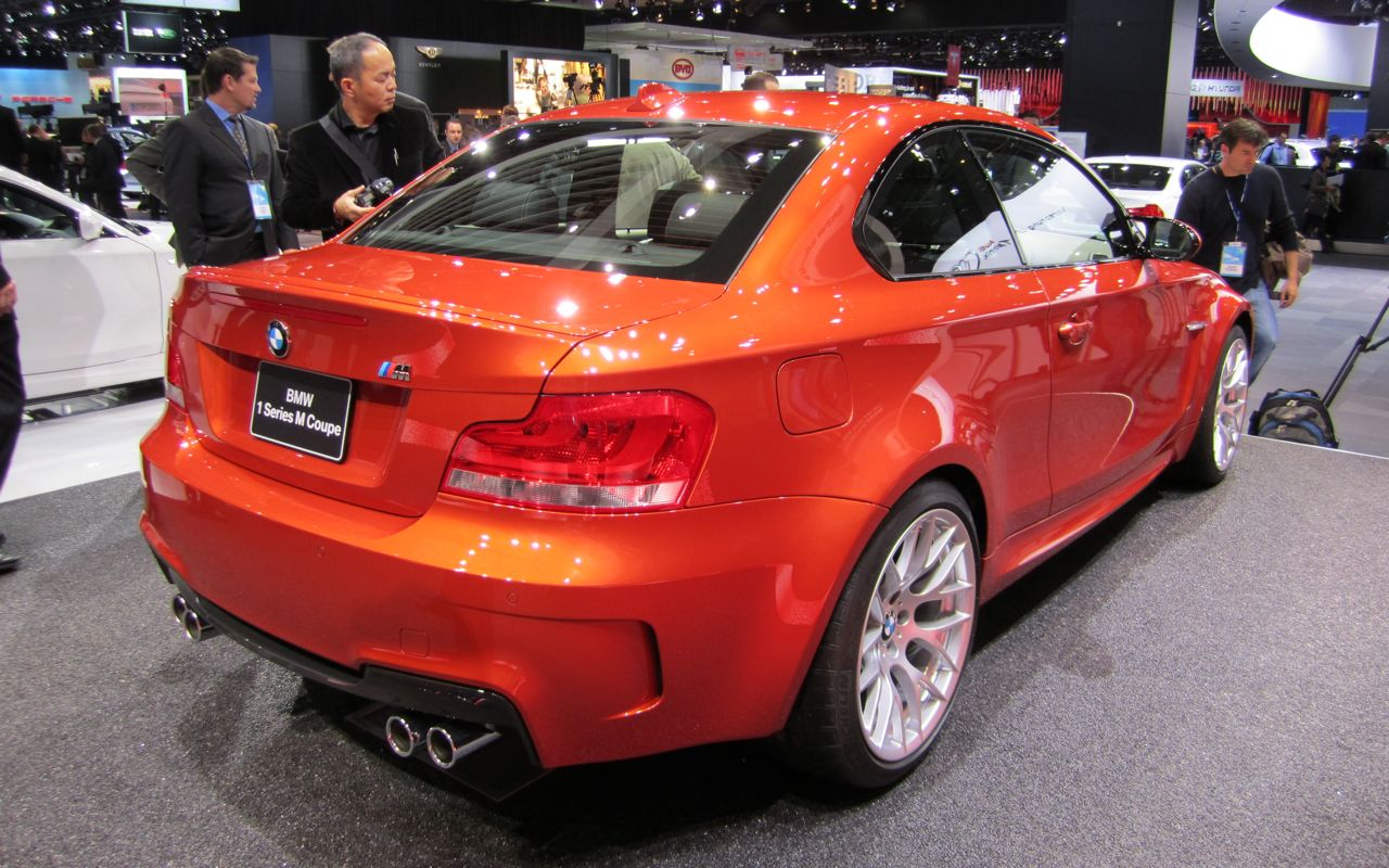 Orange BMW E82 1 Series M Coupé at the "2011 North American International Auto Show in Detroit, Michigan ".BMW 1 Series M Coupe